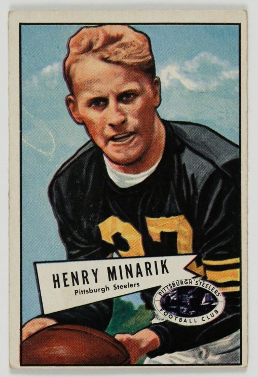 American football player Hank Minarik on a 1952 Bowman Large card.